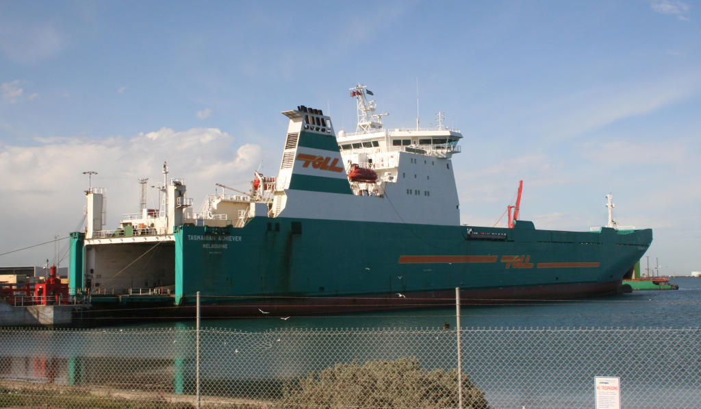 Melbourne - roll on roll off ship TASMANIAN ACHIEVER at webb dock